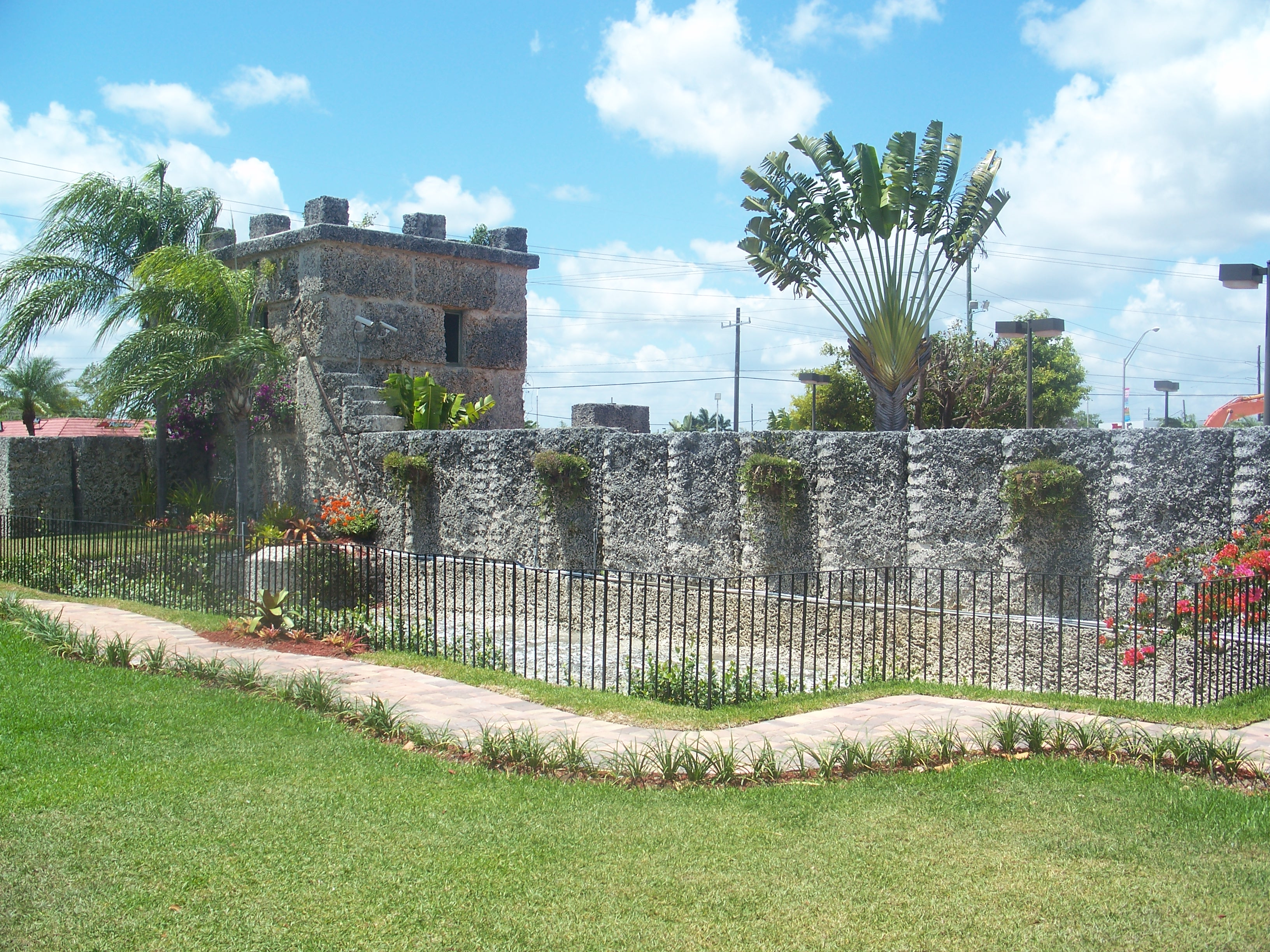 Homestead, Florida: Coral Castle: Quarry